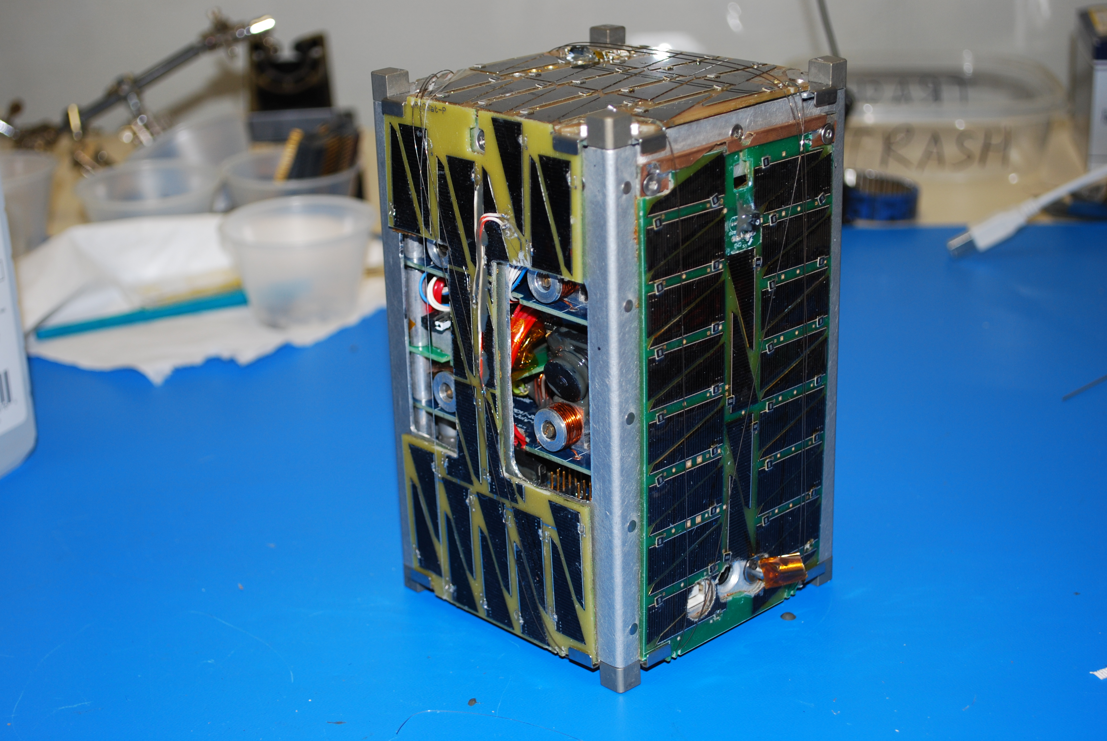 BRICSat-1 just completed flight testing and is ready to be shipped to the launch provider.